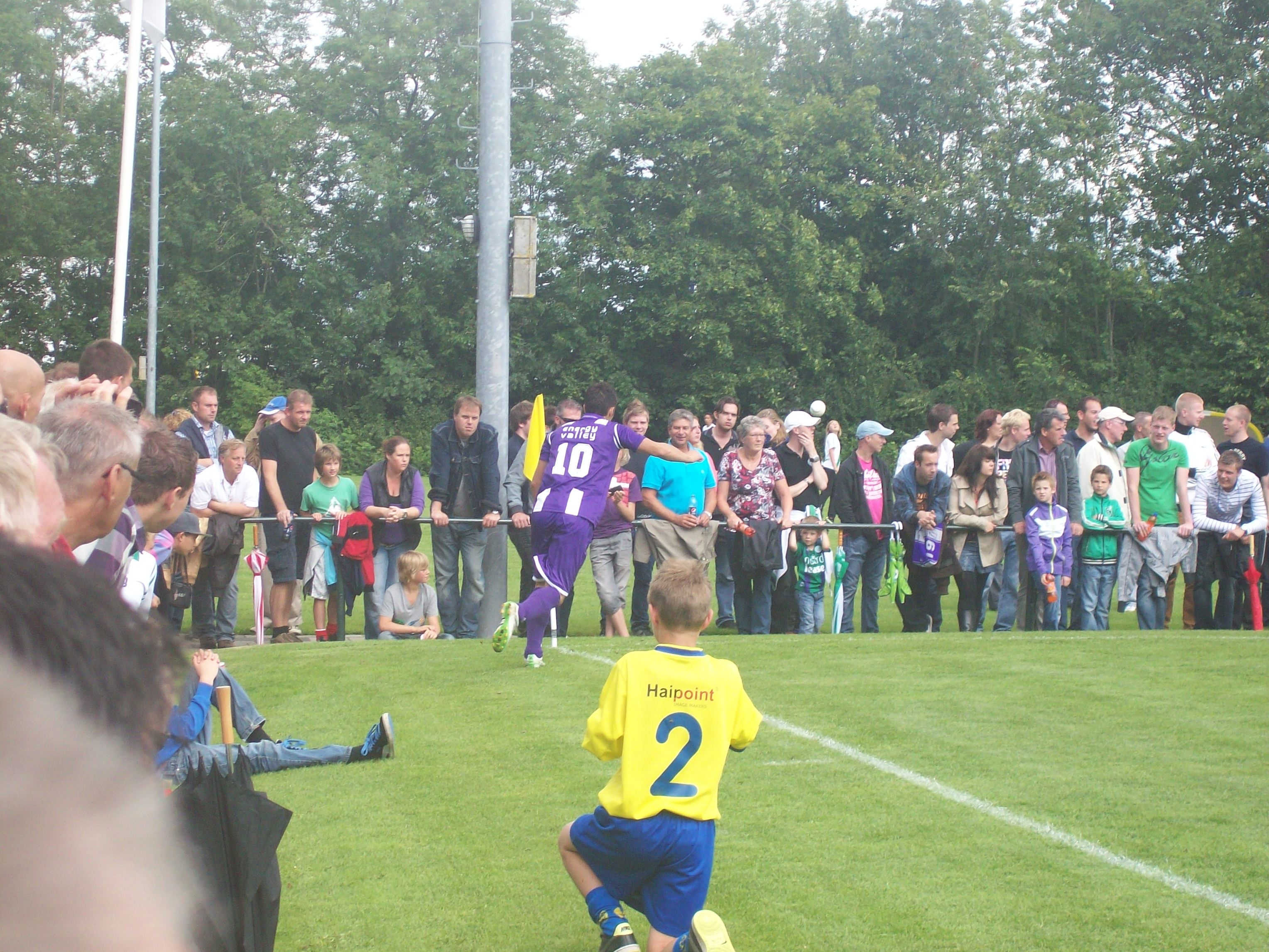 Tadiç during the game FC Groningen - Beerschot AC